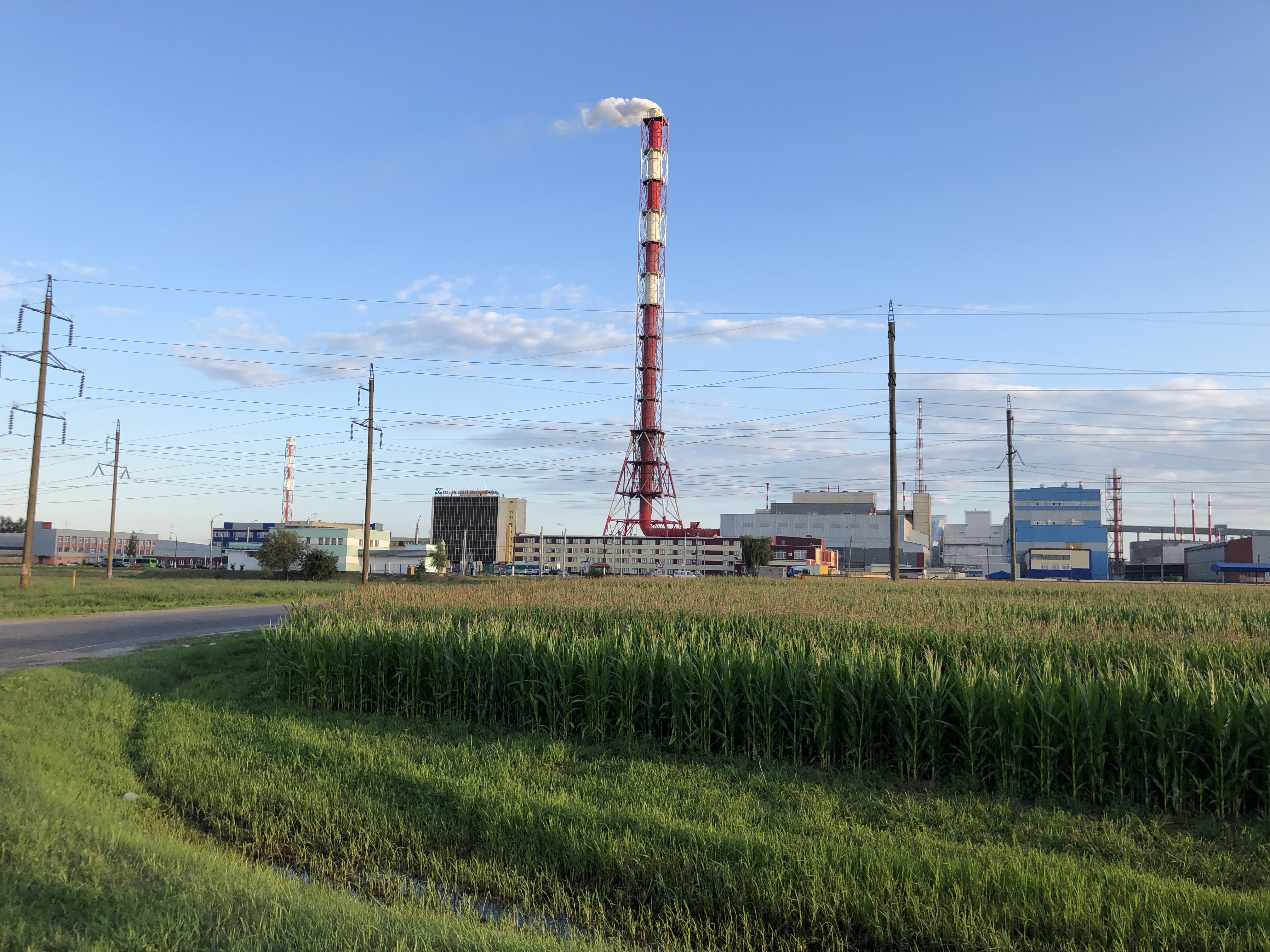 Chemical factory in Gomel, Belarus